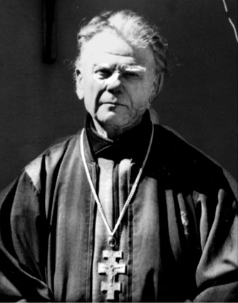 Greek-Catholic Grigory Cymbal (Lugansk, Ukraine)